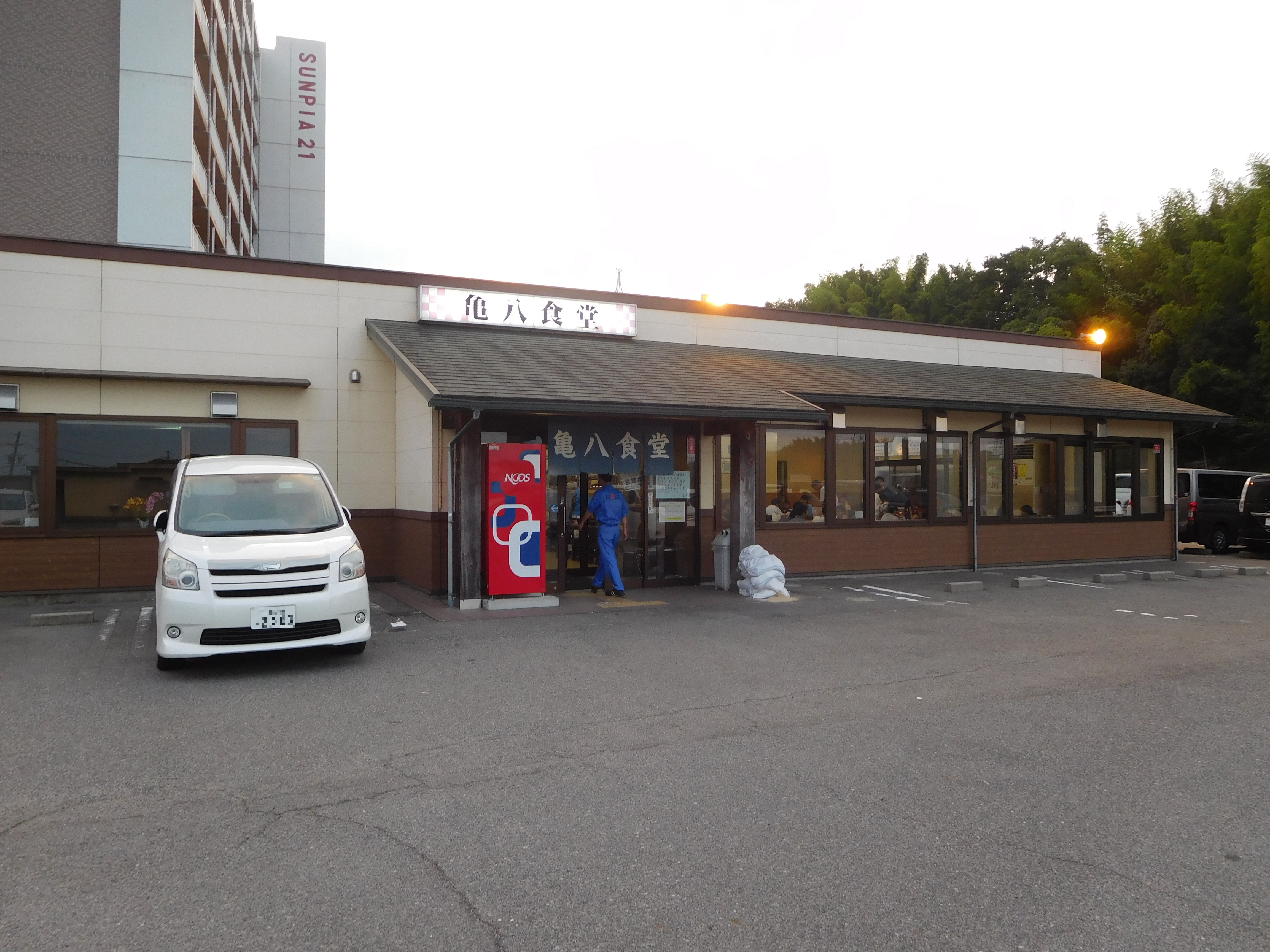 This is Kamehachi Shokudo in Kameyama, Mie, Japan.